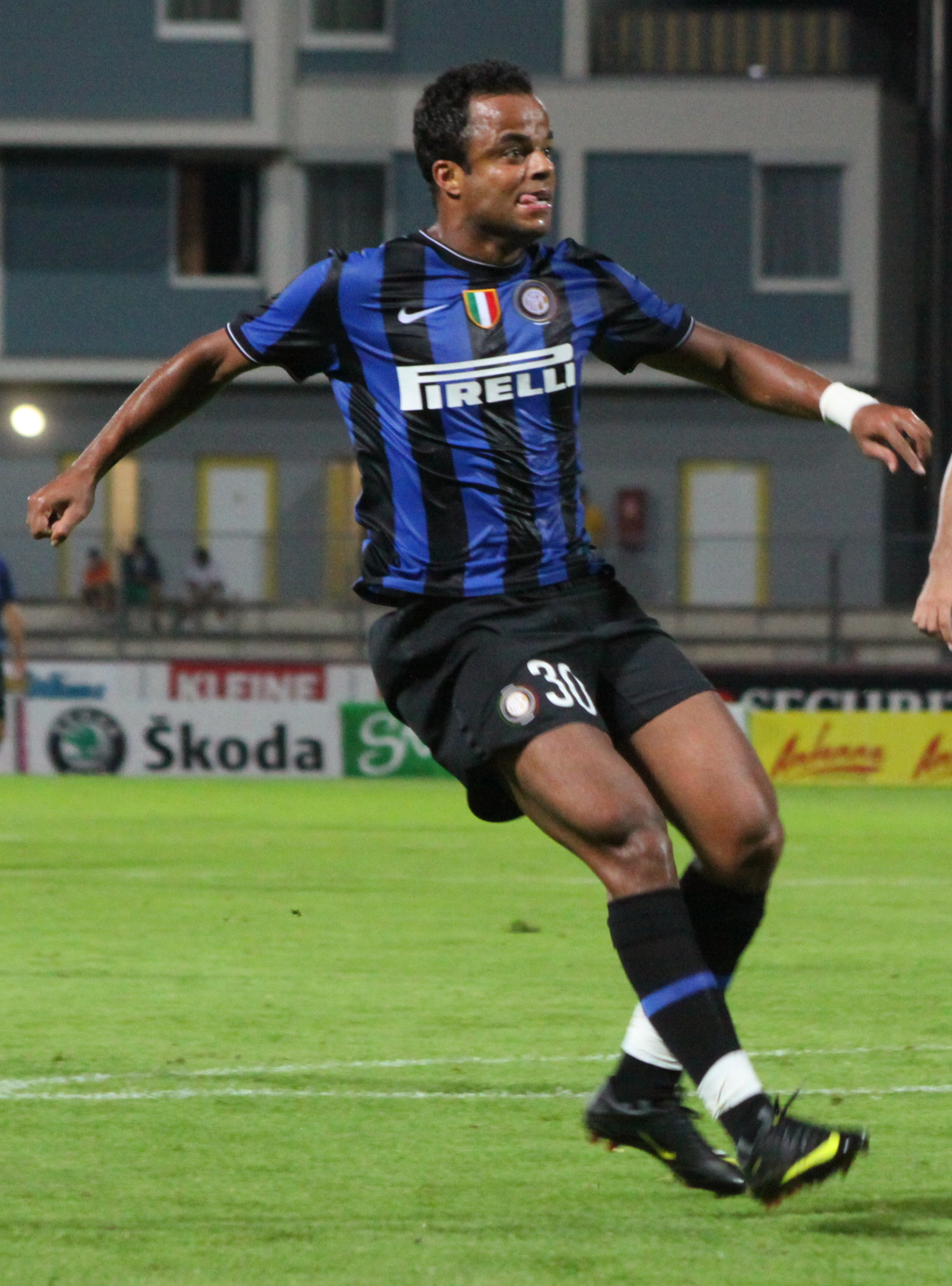 Mancini - F.C. Internazionale Milano it: Mancini - Football Club Internazionale Milano